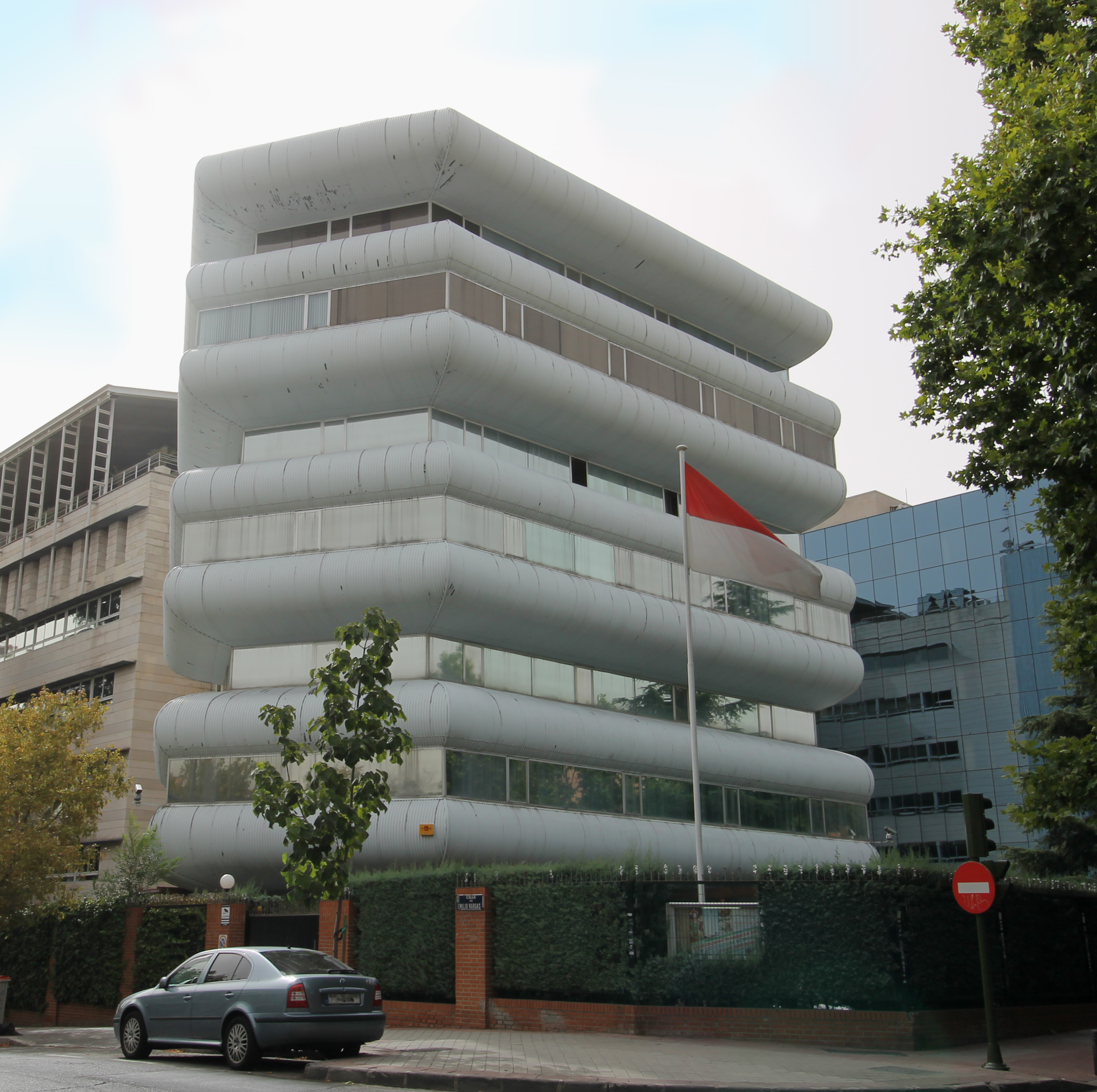 Façade of the Indonesian Embassy in Madrid (Spain).